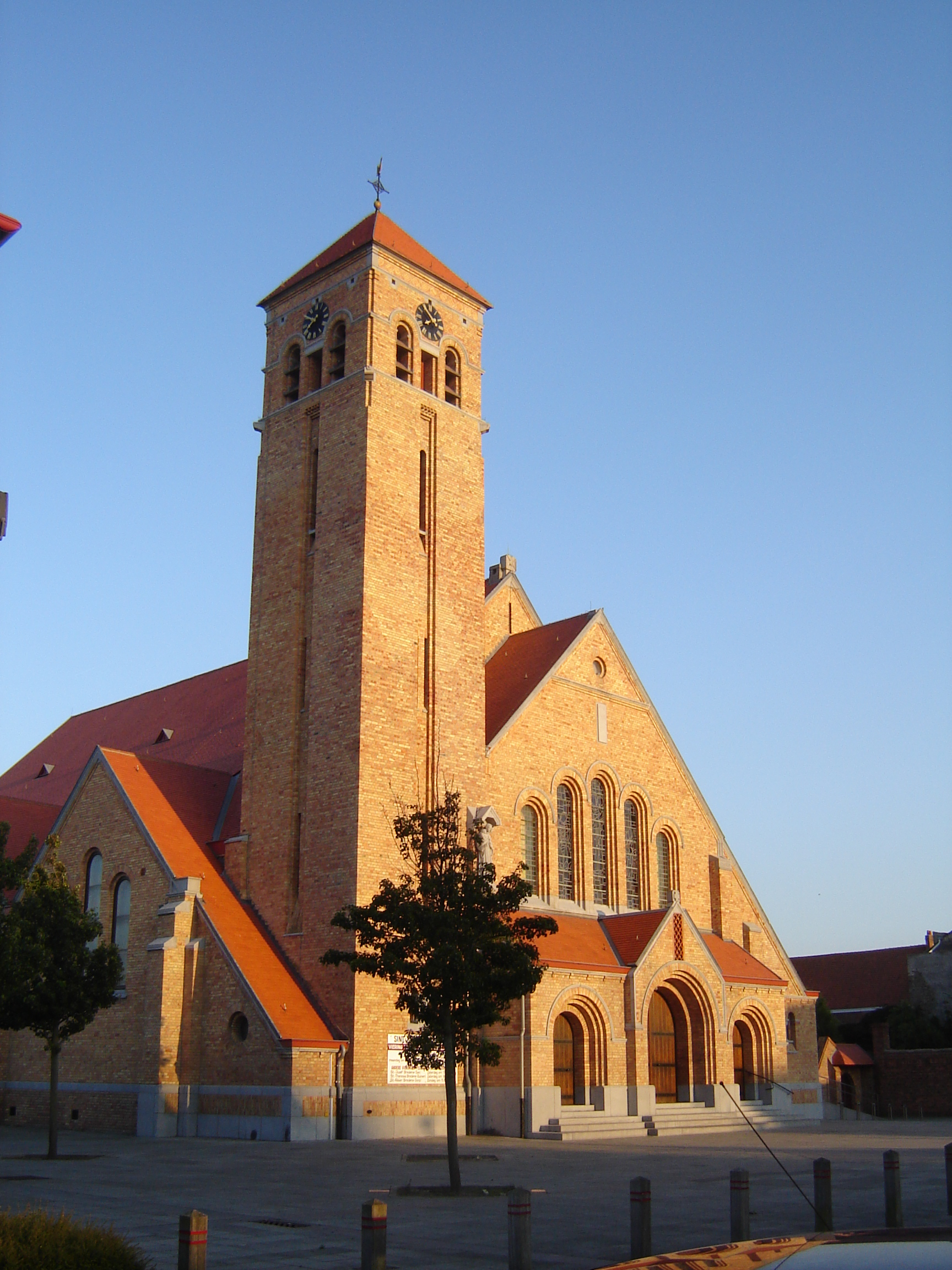 Church of Saint Anthony of Padua in the Vuurtorenwijk quarter (litt. "Lighthouse quarter") in Oostende. Oostende, West Flanders, Belgium